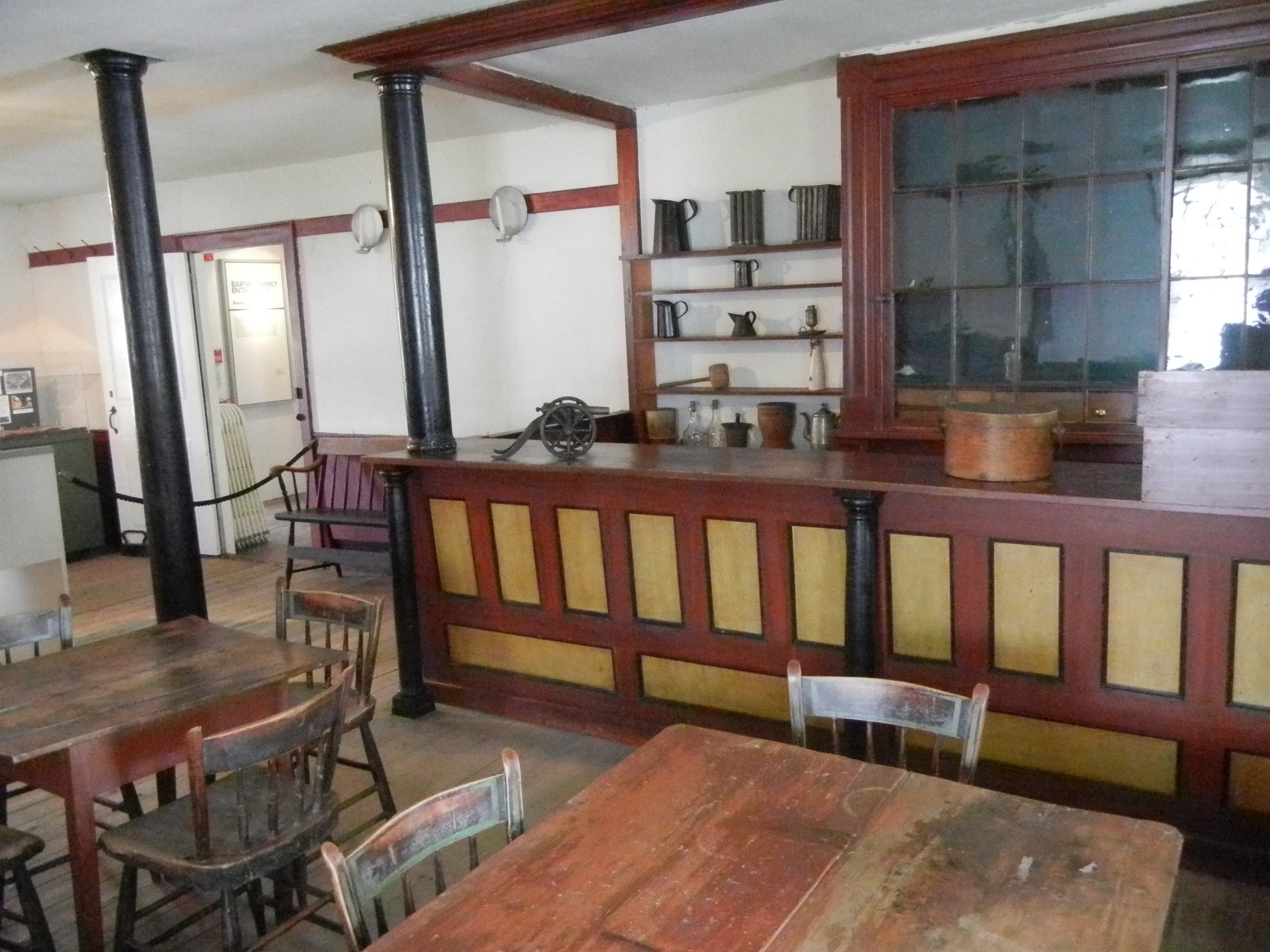 The restored historic tavern at Chimney Point, Vermont